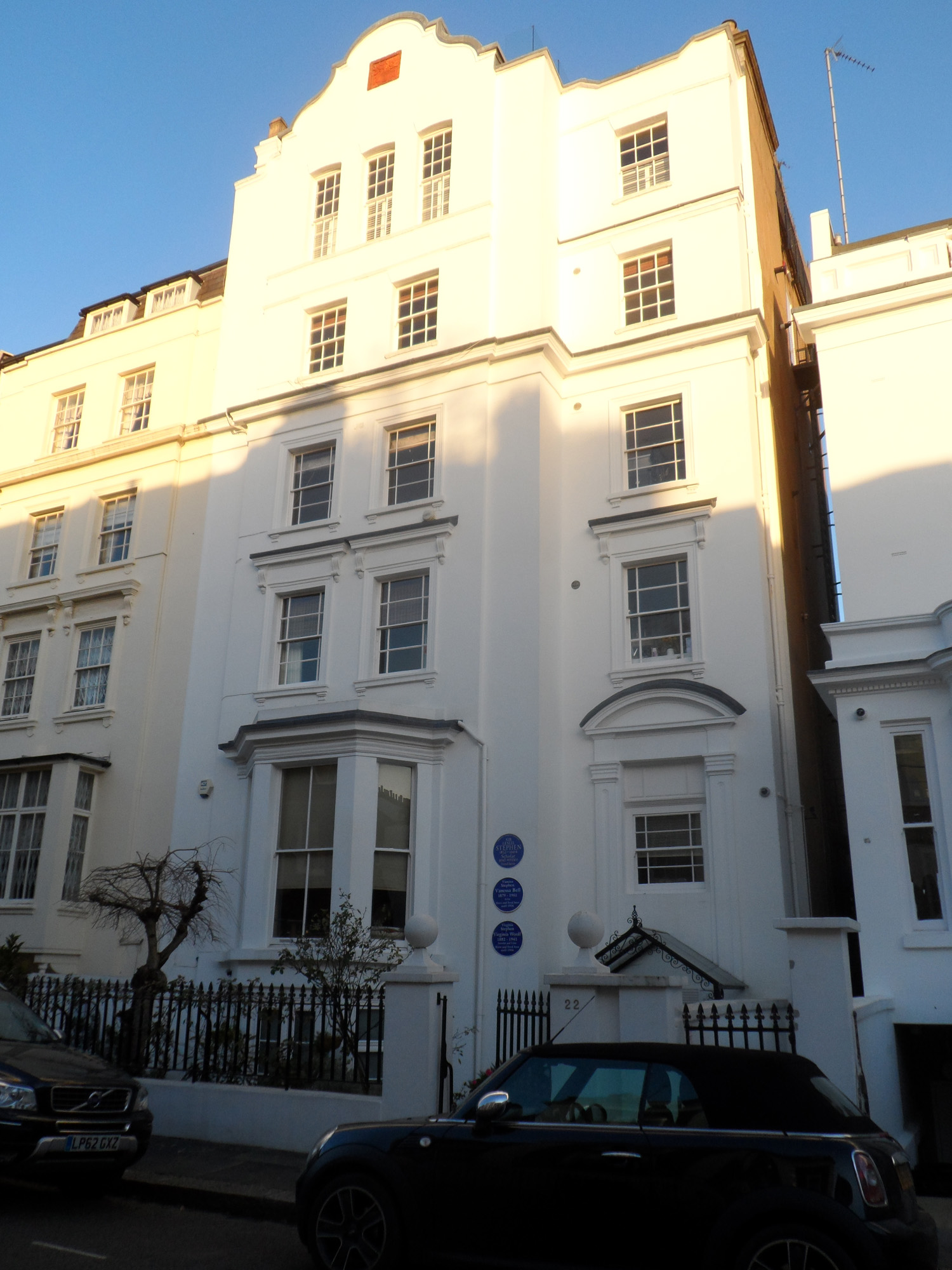 Once home of Sir Leslie Stephen 1878-1904, his wife Julia Stephen 1878-1895 together with their children, including Virginia Woolf and Vanessa Bell. Blue plaques commemorate Leslie Stephen and his daughters, Virginia and Vanessa